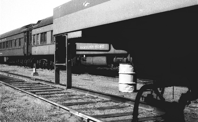 Photo by R. W. Rynerson, 1964. "Rambler Rose" with other 'tramp' Pullmans stored in Guilds Lake Yard, Portland, Oregon. Aging sleeping cars were sometimes painted in generic "Pullman" colors and lettering and kept on standby for troop trains, major conventions, or natural disasters. With its nationwide organization and network of facilities, the Pullman Company could respond to a variety of emergencies.